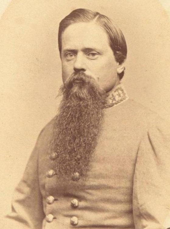 Carte-de-Visite of a half portrait of Major General Fitzhugh Lee in uniform. Inscription on front: Fitzhugh Lee. Inscription on back: cv 301 p54; Also on back is a 2-cent U. S. Internal Revenue Stamp. Collections of the Confederate Memorial Literary Society managed by the Virginia Historical Society